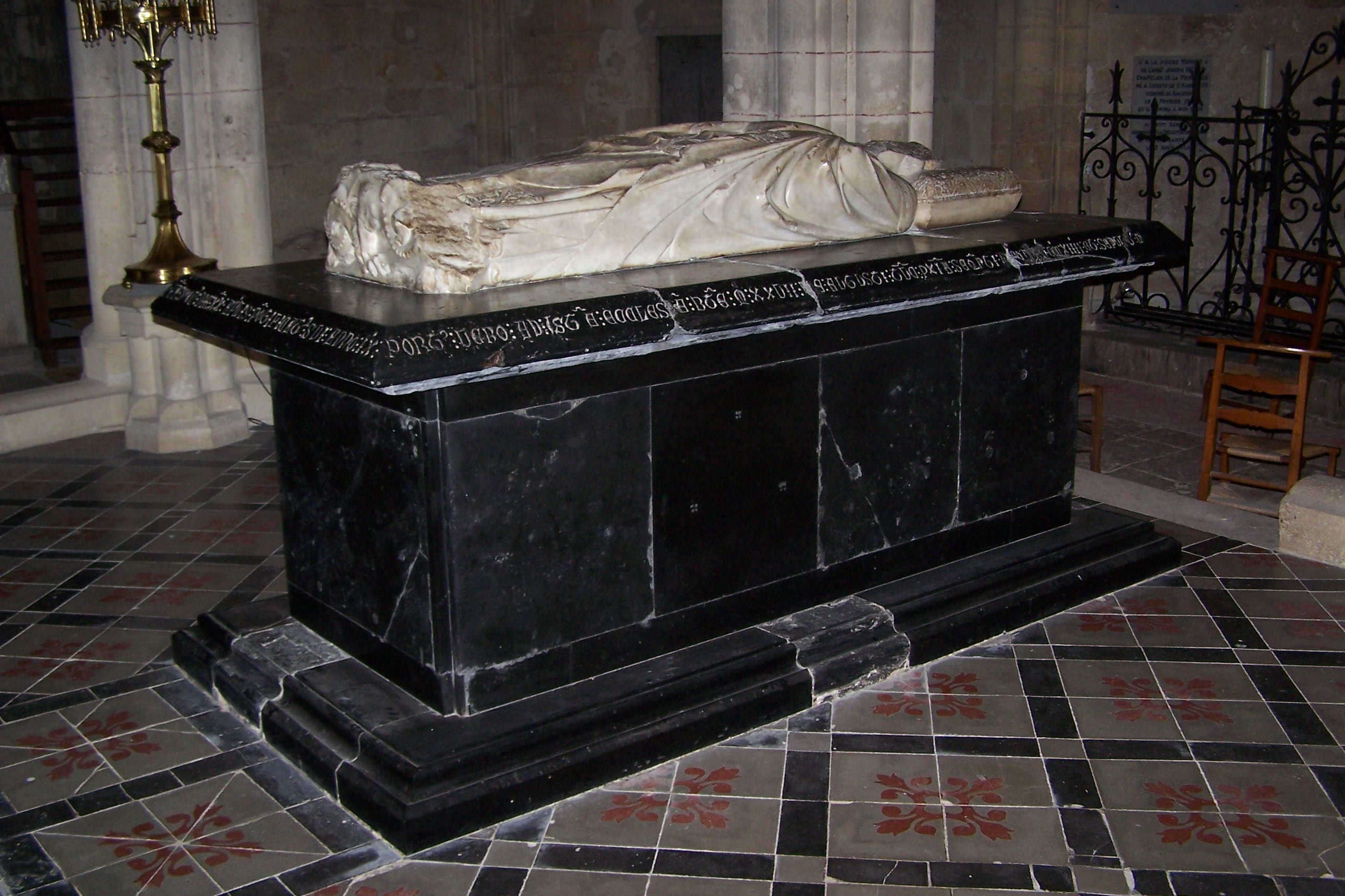 Recumbent effigy of Clemens V in Uzeste (Gironde, France)